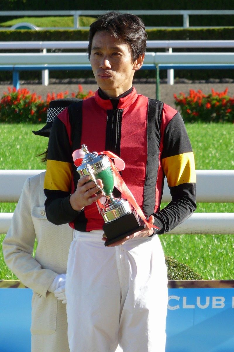 Yoshiyuki-Yokoyama